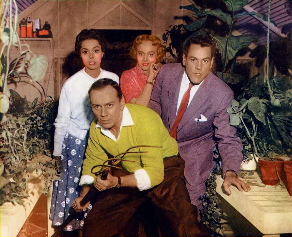 Color lobby card for the 1956 American science fiction movie Invasion of the Body Snatchers, Allied Artists, 1956. Assumed to be in the public domain as no copyright notice is in evidence.